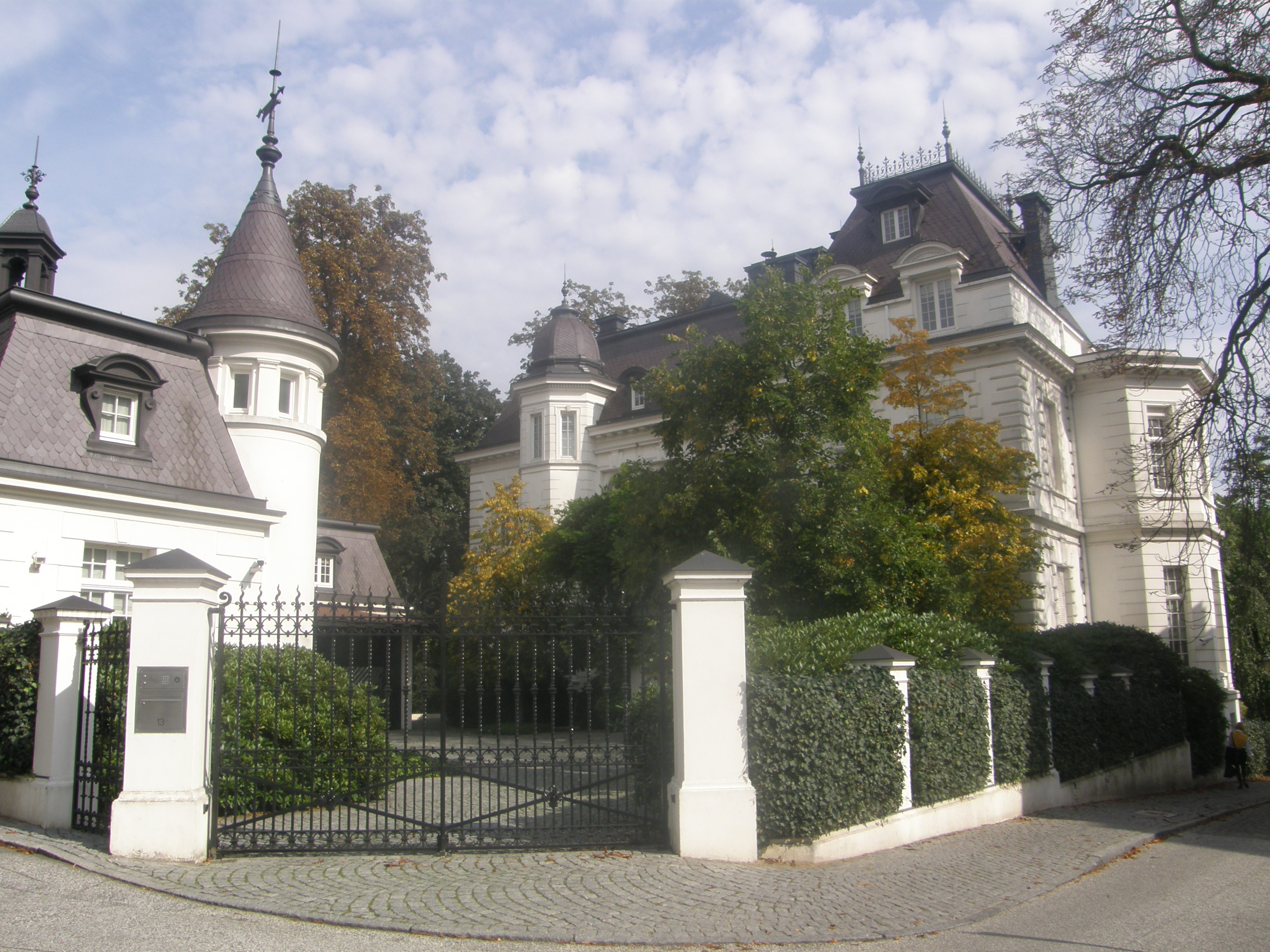 Harvestehuder Weg Hamburg, former headquarters of Olympic Maritime